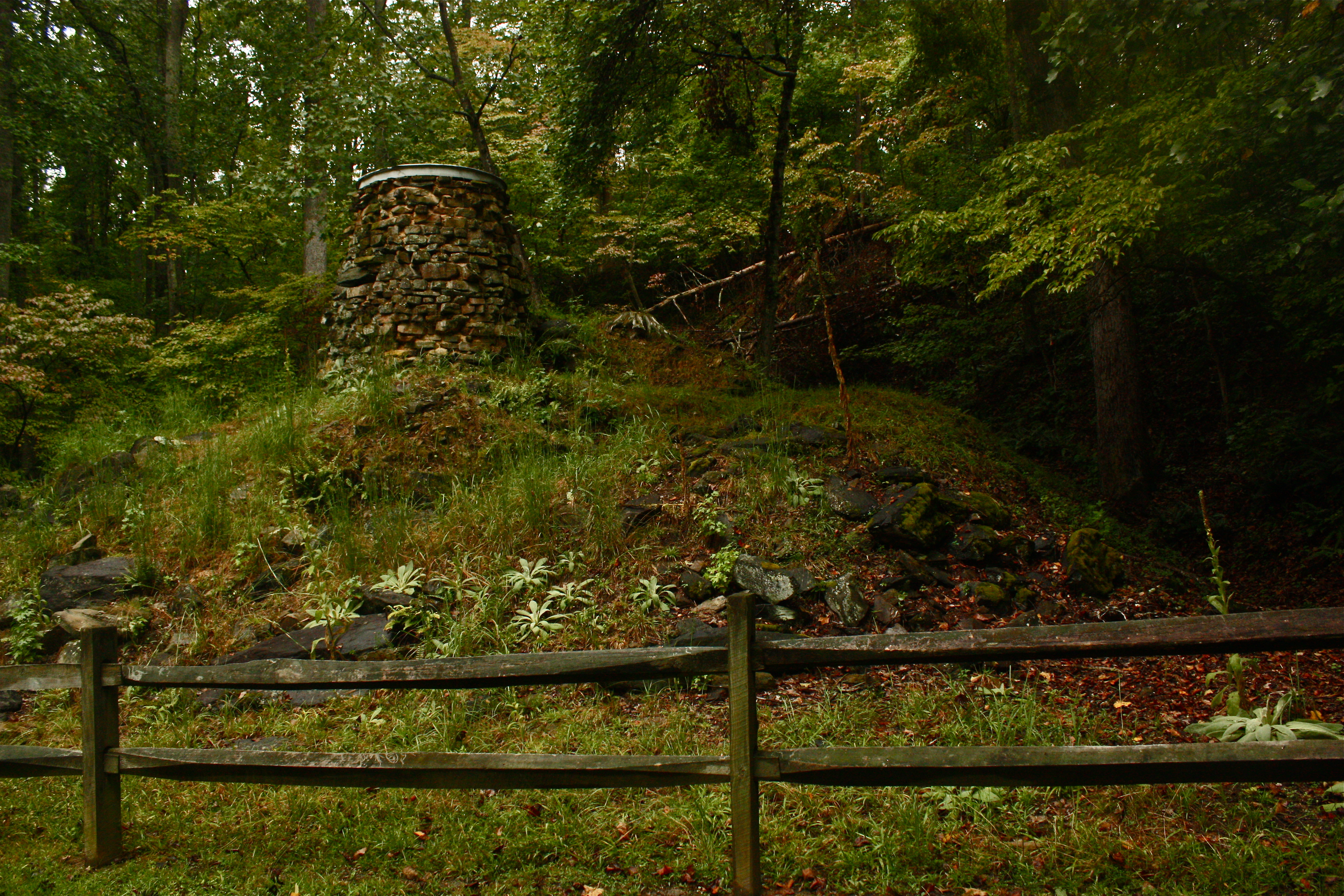 Fredericksburg and Spotsylvania County Battlefields Memorial National Military Park